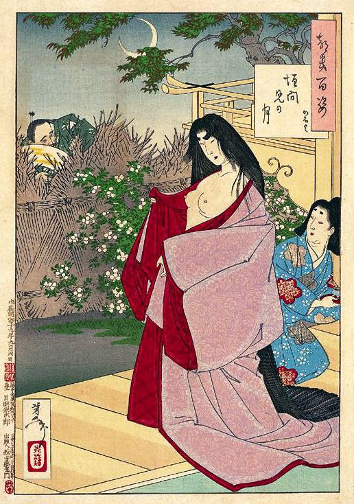 A glimpse of the moon (Kaimami no tsuki)